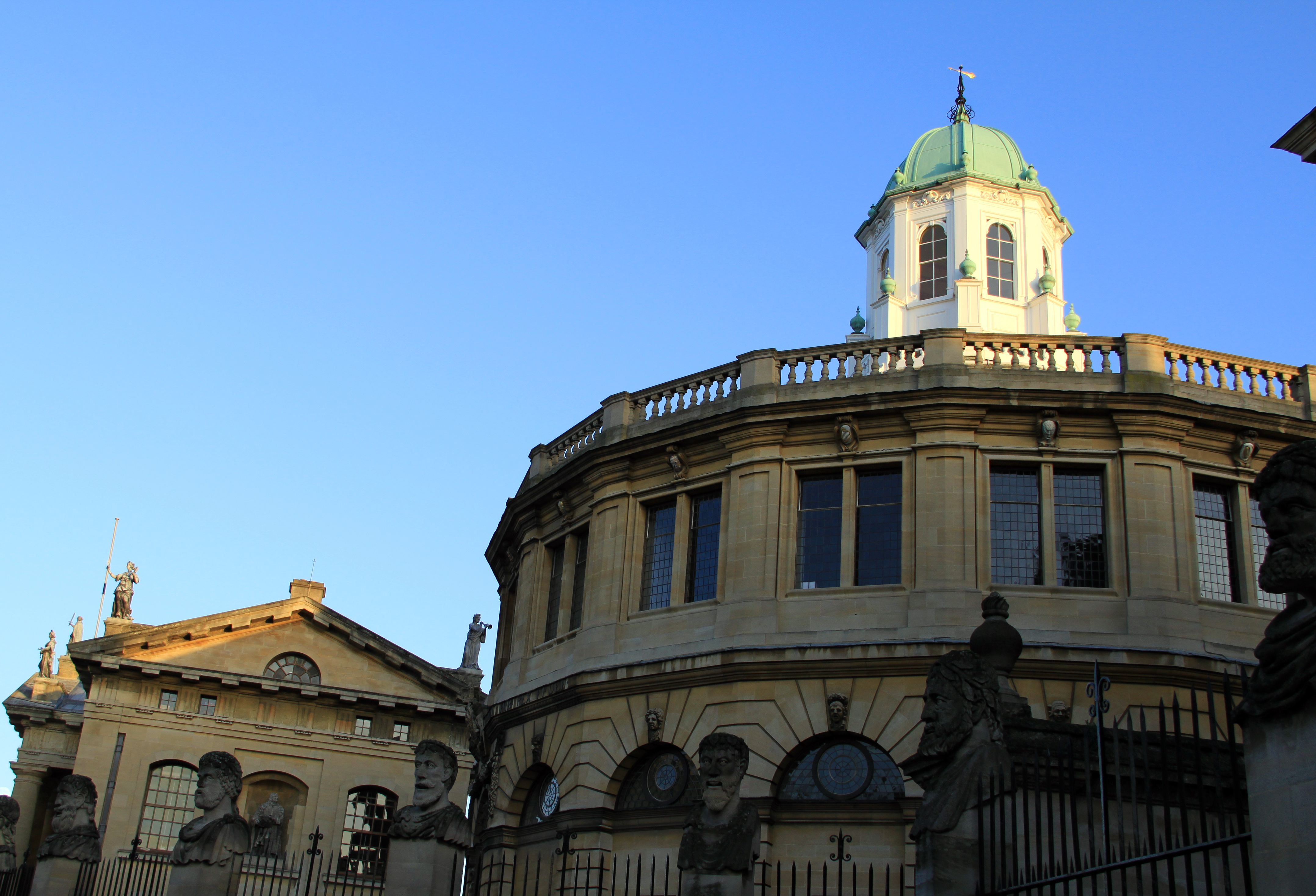 Sheldonian Theatre 2009 - View from Broad Street